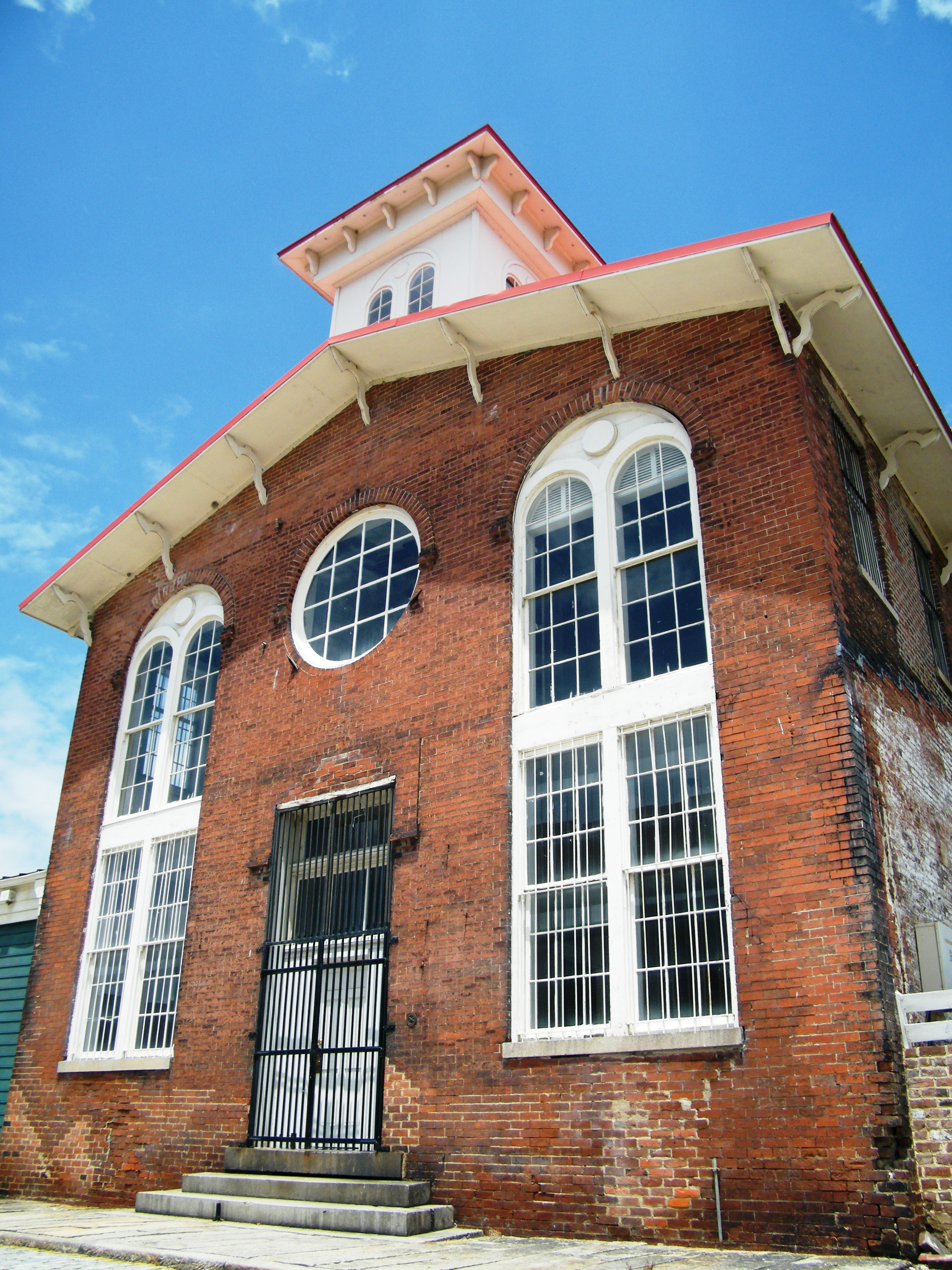 The old train station in Petersburg, Virginia.